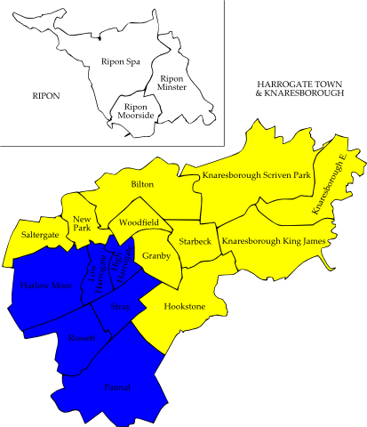 A map of the results of the 2006 Harrogate Council election. Rural areas of the council, which did not have elections in 2006, are not shown on the map. Colour legend by wards won: Liberal Democrats Conservative party Independents